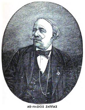 Poikilē stoa: ethnikē eikonographēnenē epetēris ... Etos 1-16, 1881-1914 (1881) Author: Ioannes A. Arsenēs , Michael A . Raphaelobits Volume: 1-2 Publisher: Estia Year: 1881 Possible copyright status: NOT_IN_COPYRIGHT Language: Greek Digitizing sponsor: Google Book from the collections of: Harvard University Collection: americana